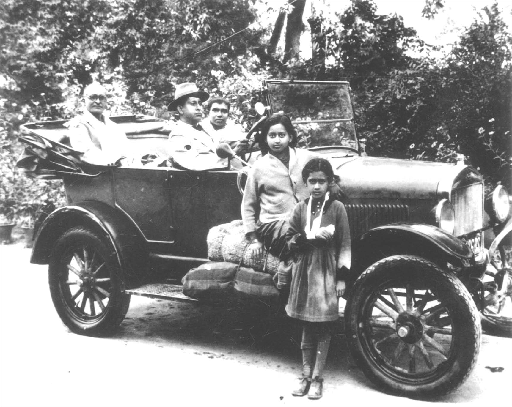 Bhaktisiddhanta riding in car to Naimisaranya